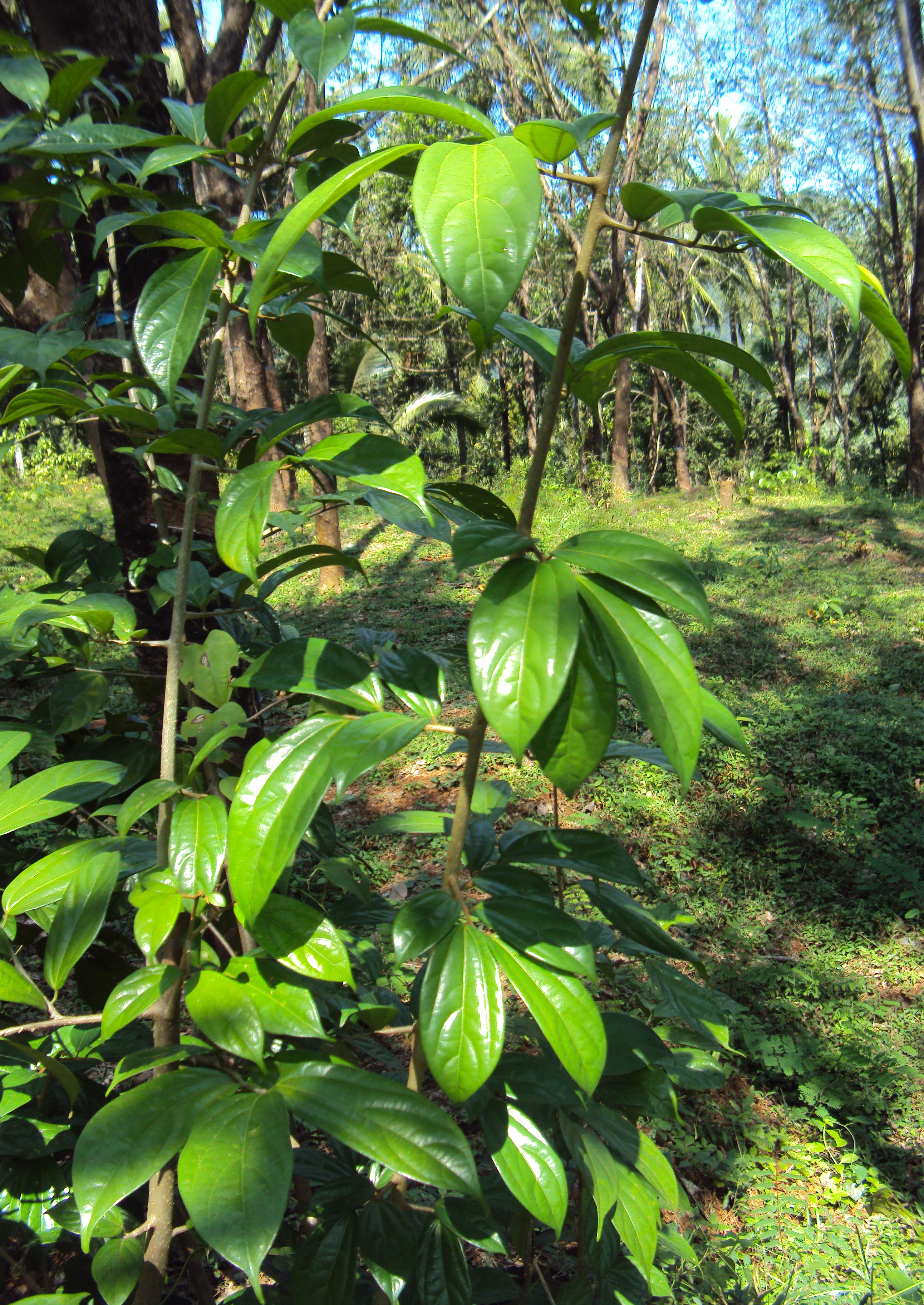 Alangium salviifolium leaves